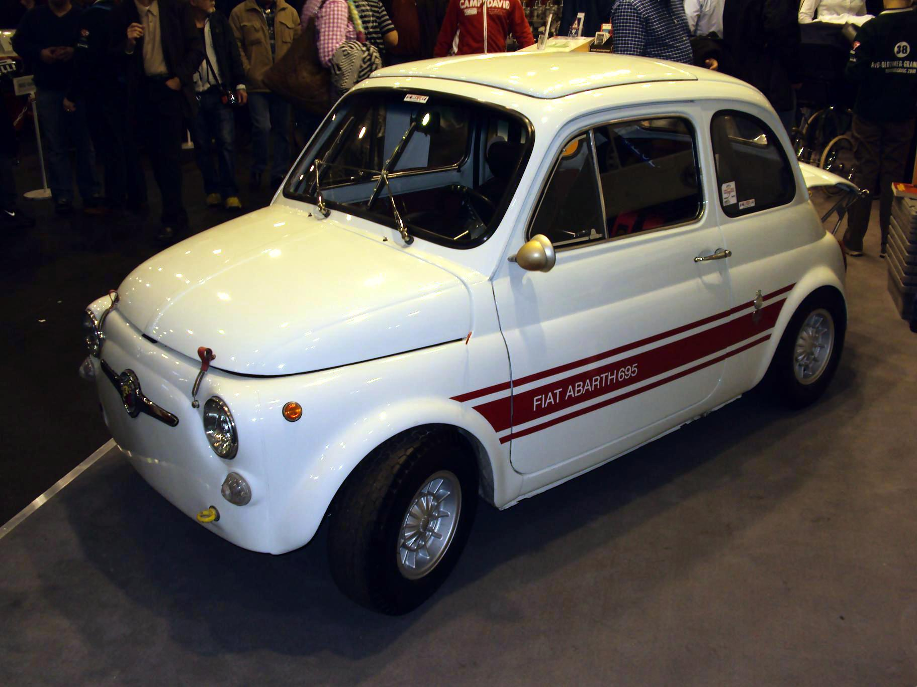 Fiat Abarth 695